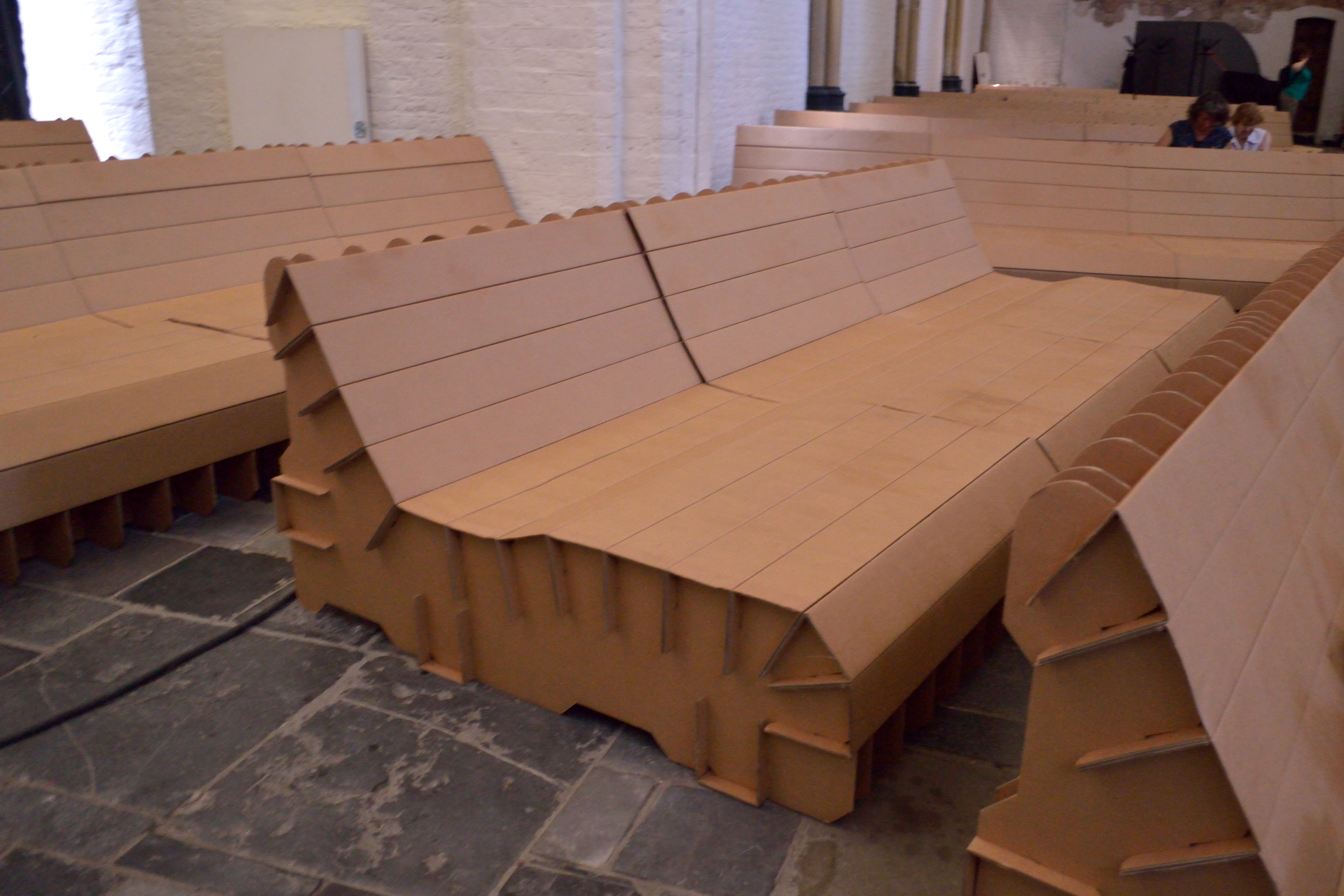 Banks of carton in the Bergkerk during "Deventer op Stelten". The banks are made by Smurfit Kappa.